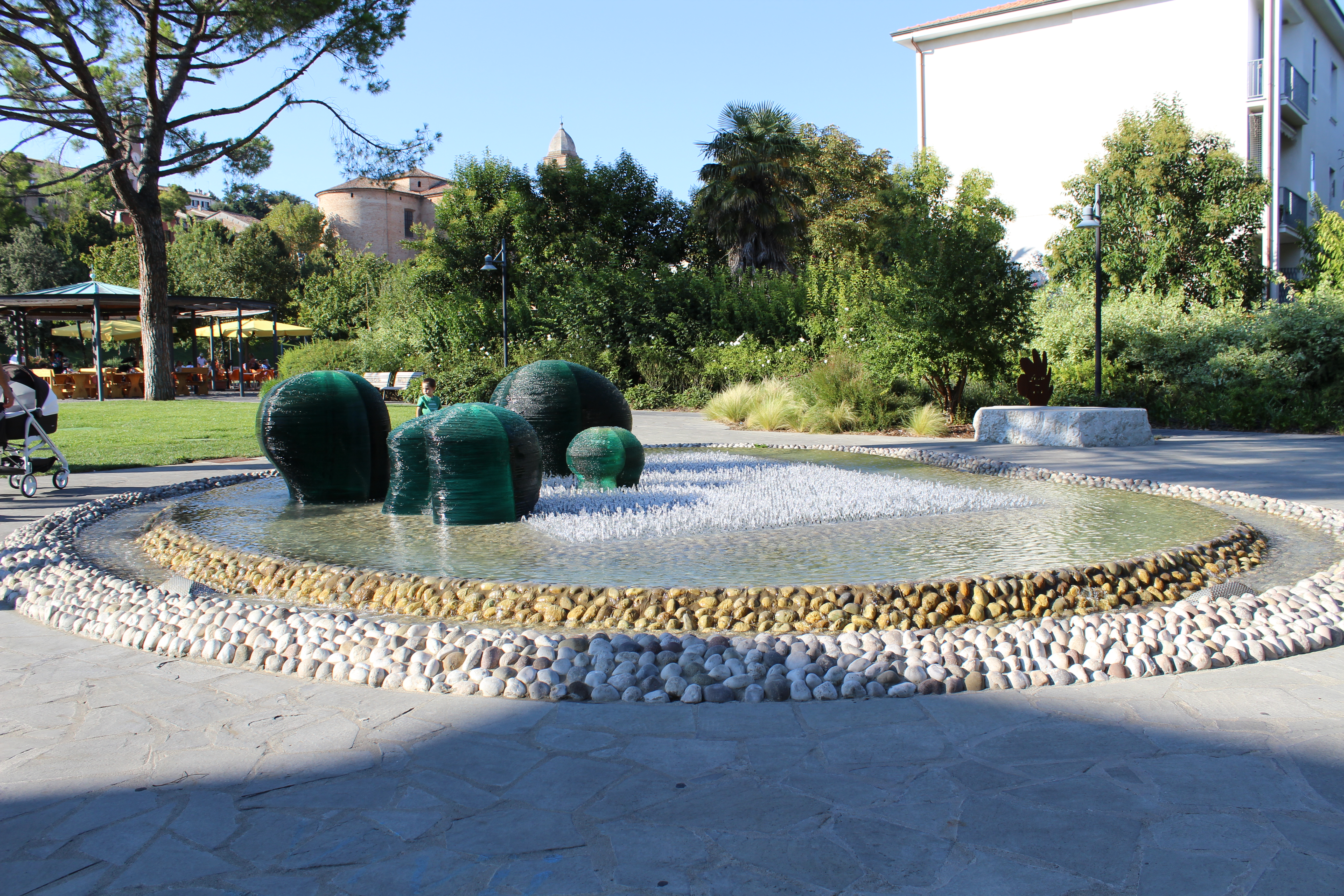 Fountain of Tonino Guerra at Santarcangelo di Romagna, Italy